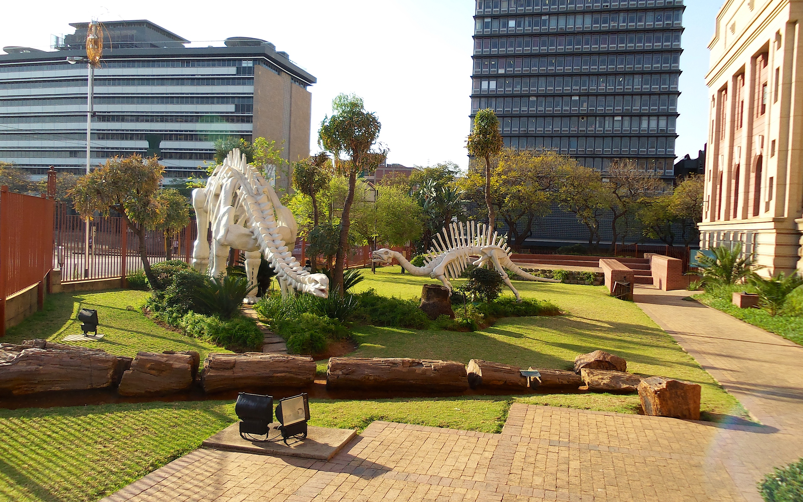 Transvaal Museum, Paul Kruger Street, Pretoria This media shows a South African Protected Site with SAHRA file reference 9/2/258/0100.